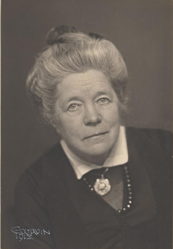 Swedish author Selma Lagerlöf in 1918